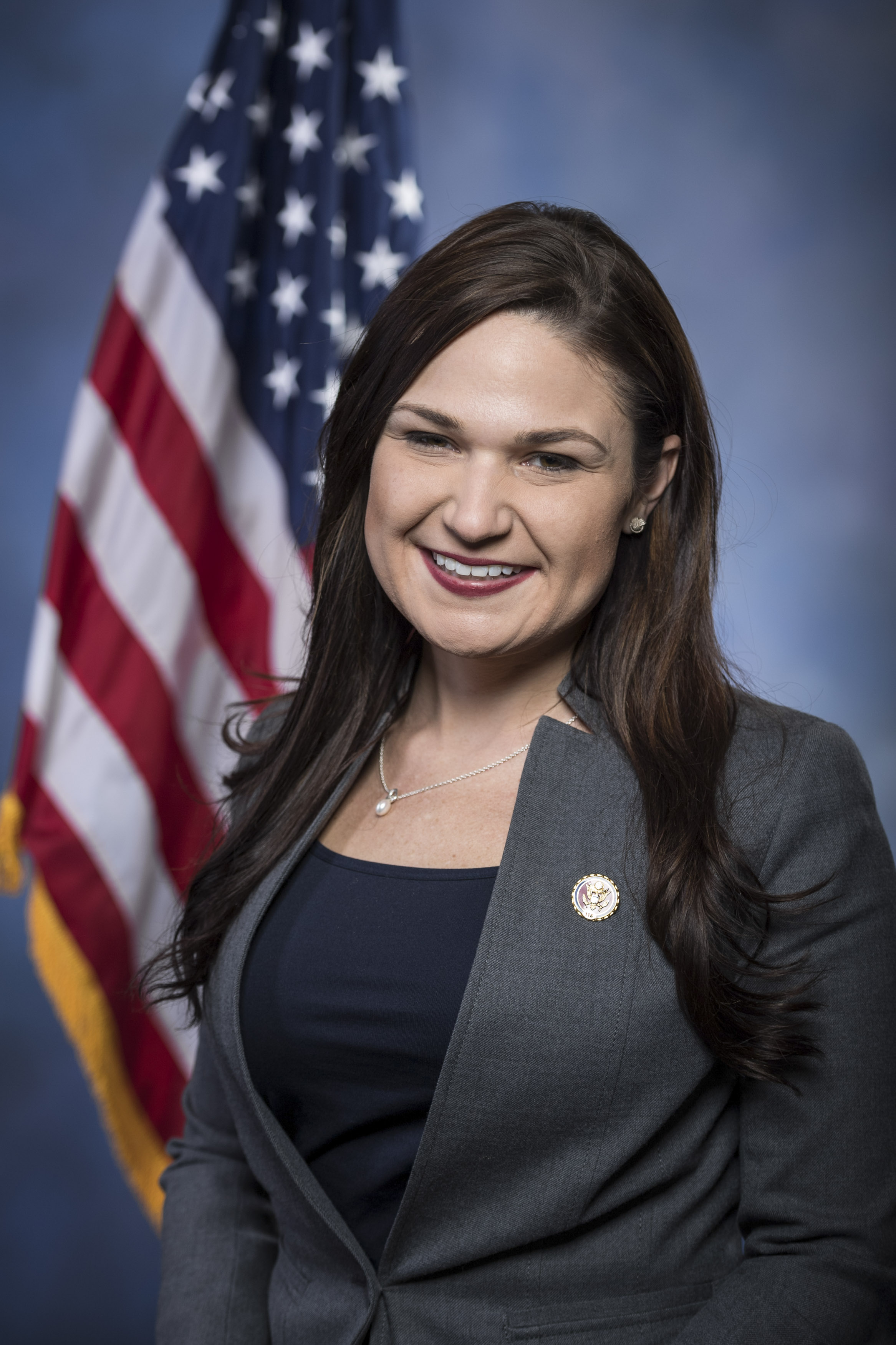 Official portrait of Congresswoman Abby Finkenauer (D-IA01)